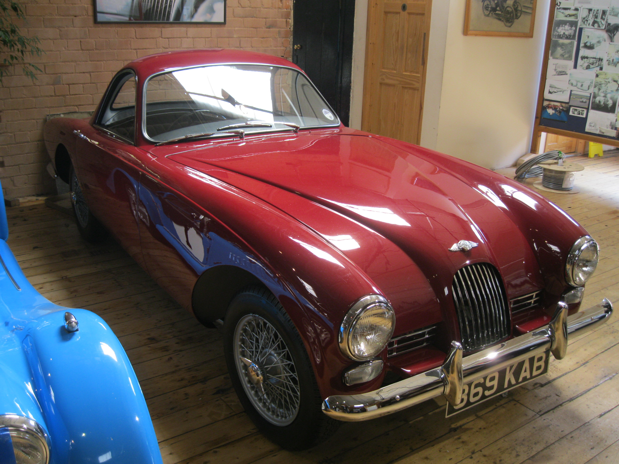 Very short production run (26 cars) for this GRP bodied hardtop Morgan in the mid 1960s